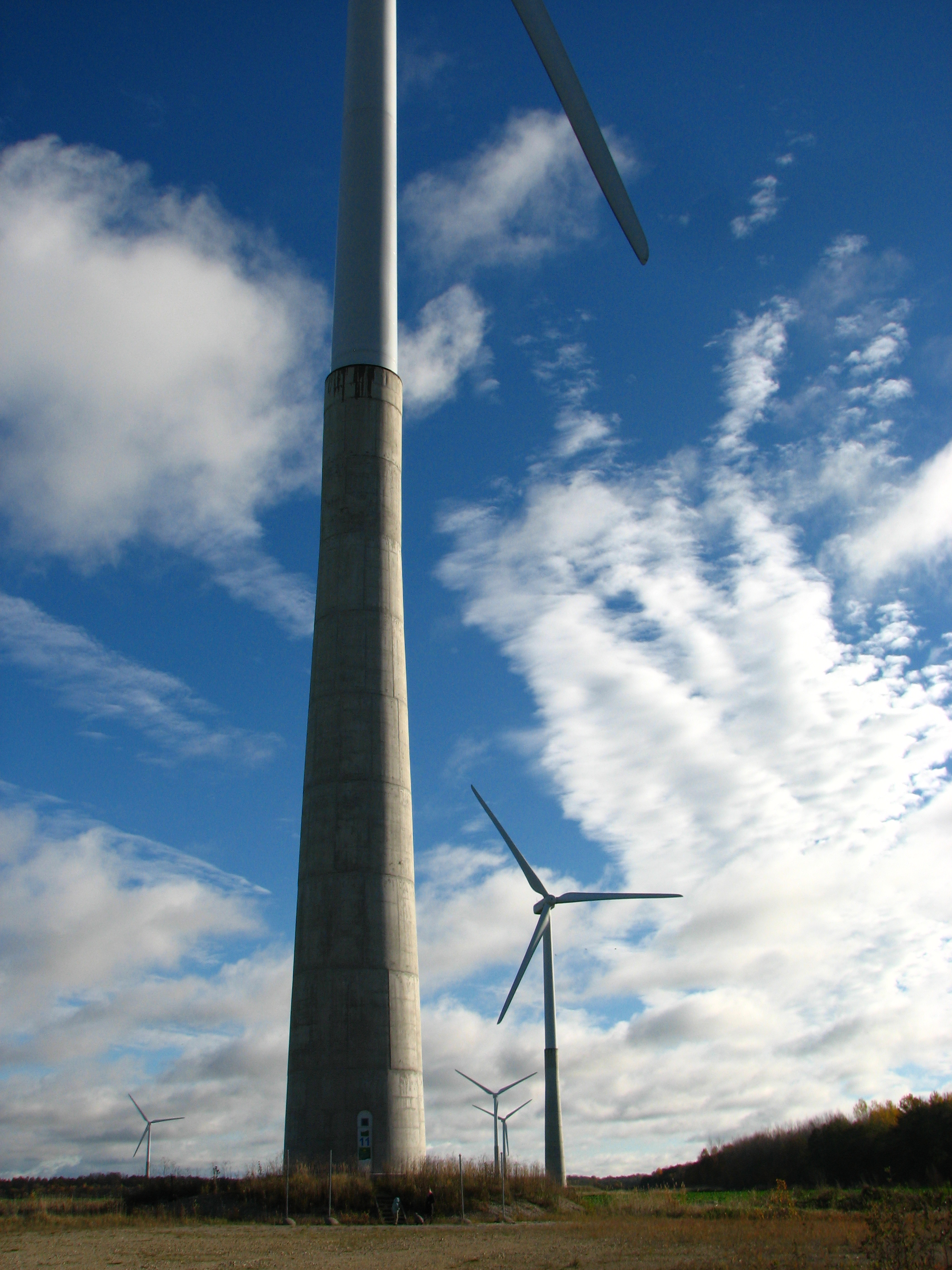 Wind farm in Aulepa village, Noarootsi, Estonia. Taken in October 2013.